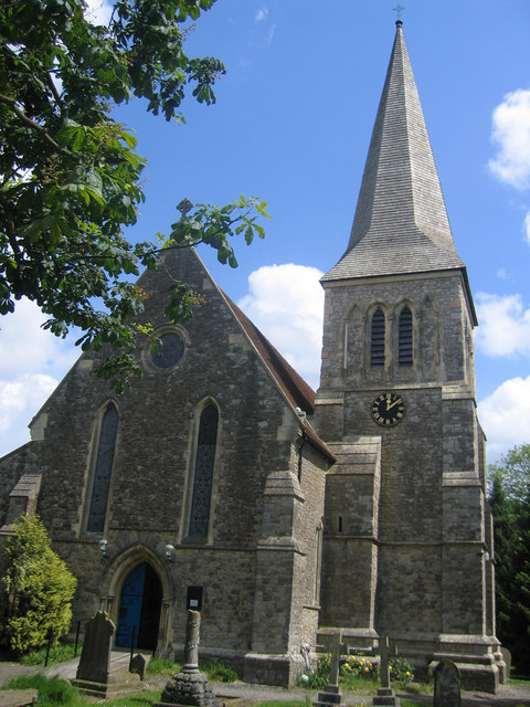 St Margaret's parish church, Collier Street, Kent, seen from the southwest